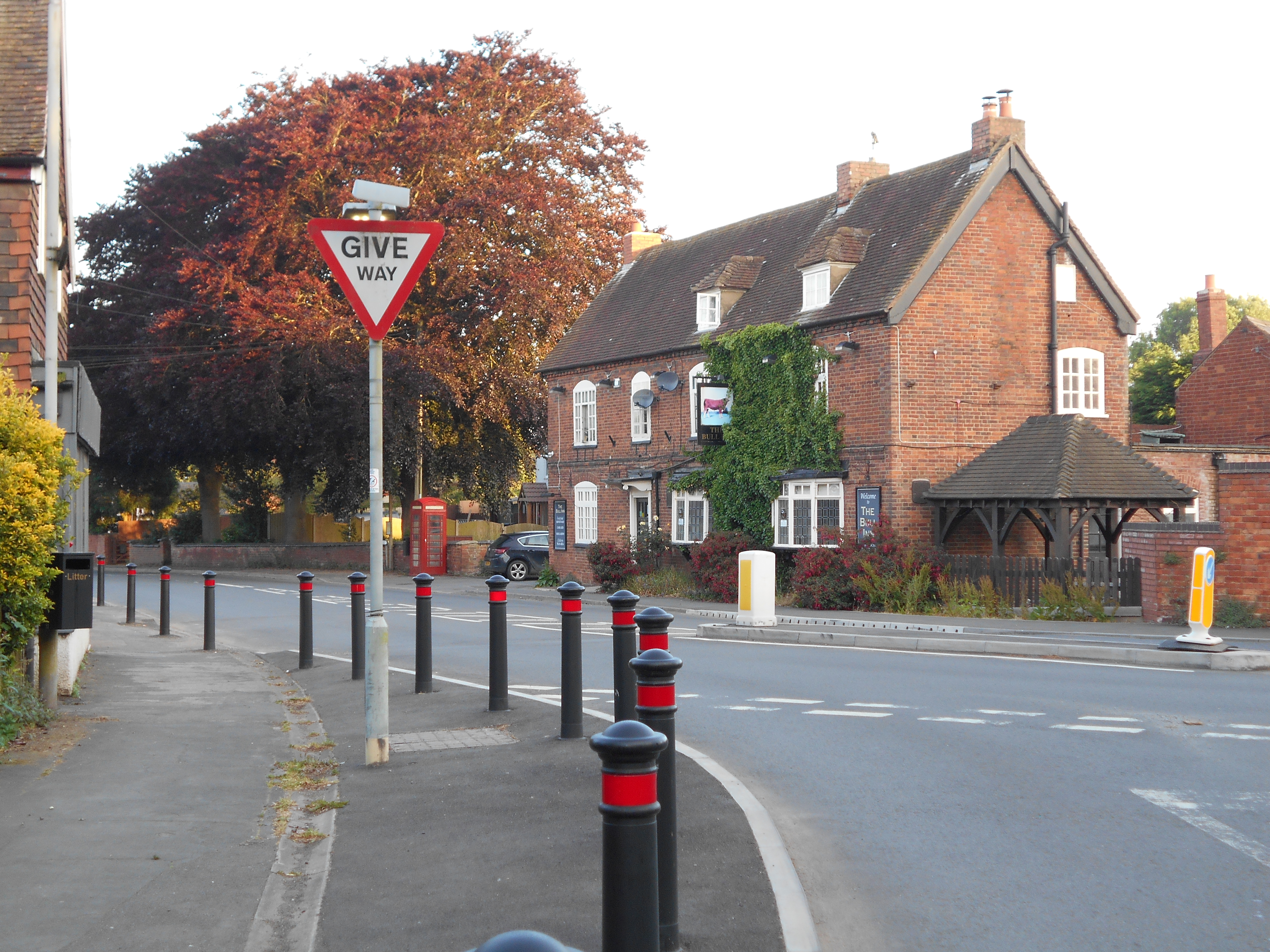 Bull Inn, Main Street, Clifton-upon-Dunsmore